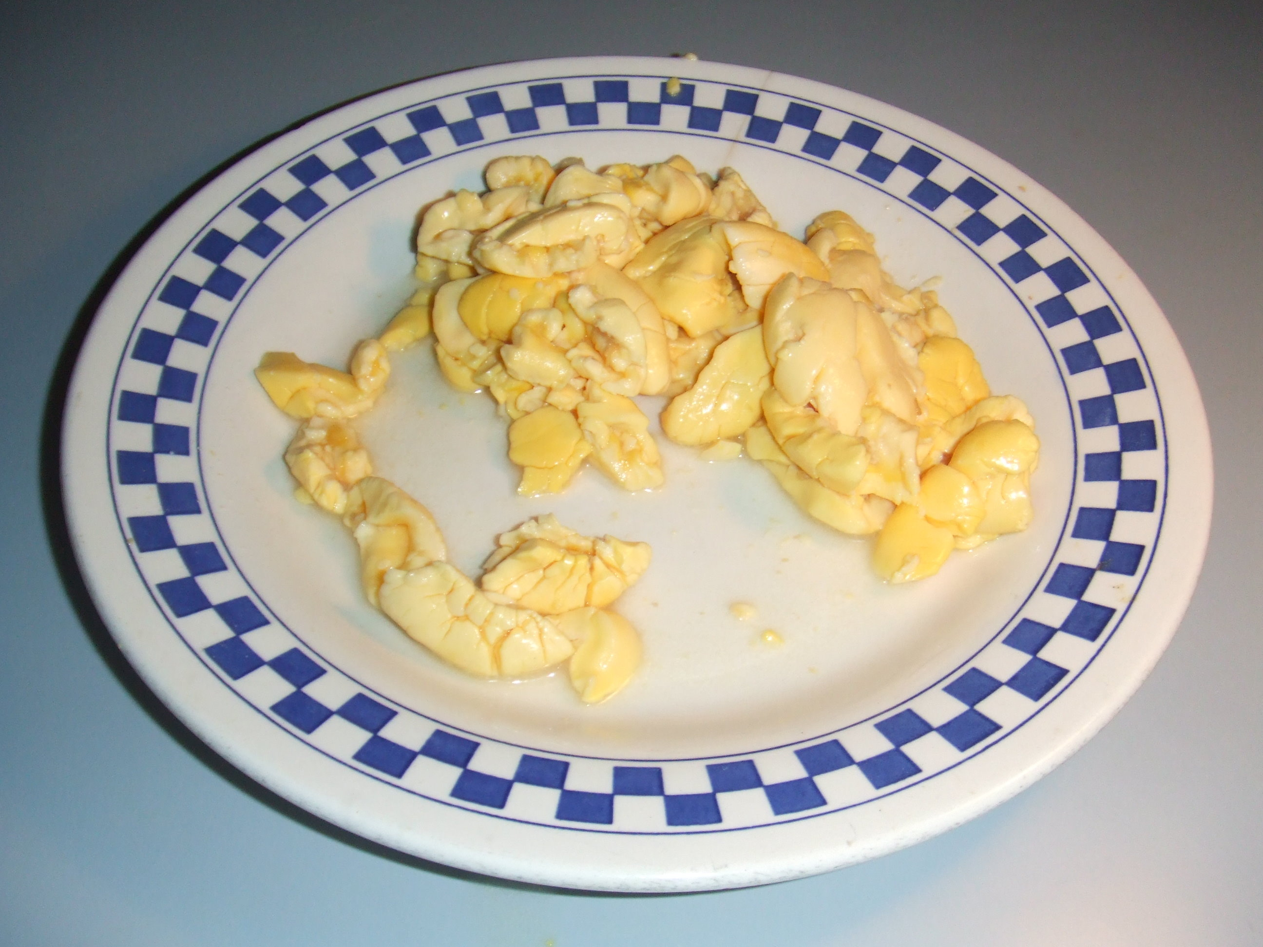 Blighia sapida (arillus) from a can on a plate